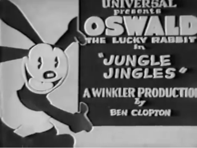 This is the title card of Jungle Jingles, a 1929 cartoon featuring Oswald the Lucky Rabbit